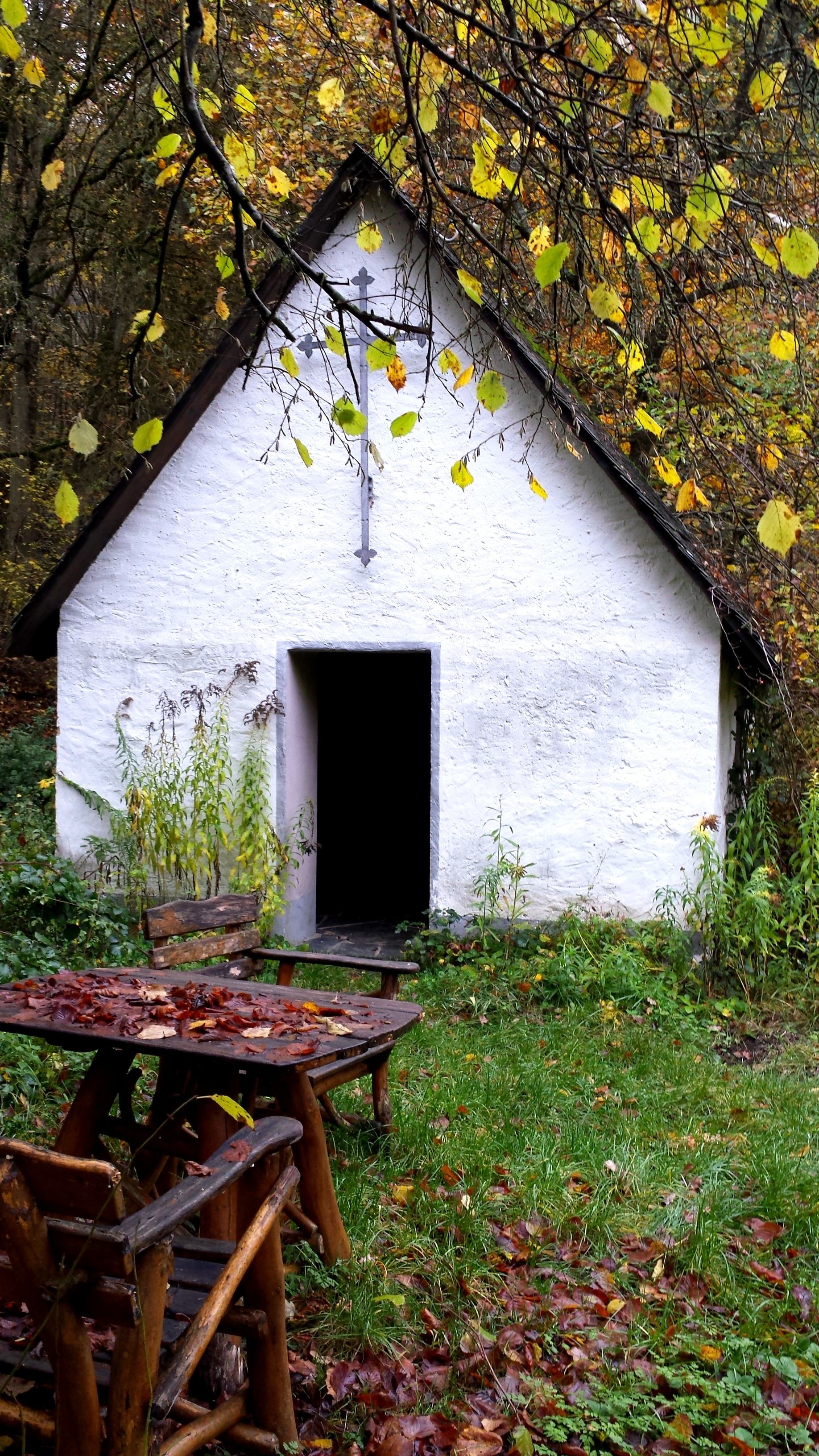 Chapel at the former Rosenthal Monastery in the Pommerbach Valley